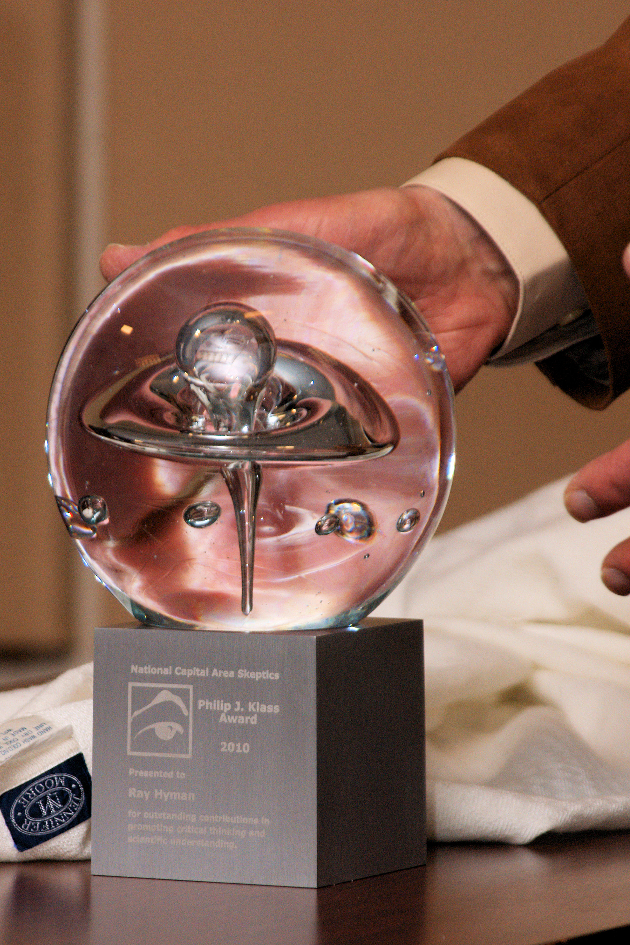 The National Capital Area Skeptics (NCAS) honored Dr. Ray Hyman with the 2010 Philip J. Klass Award in April 2010.